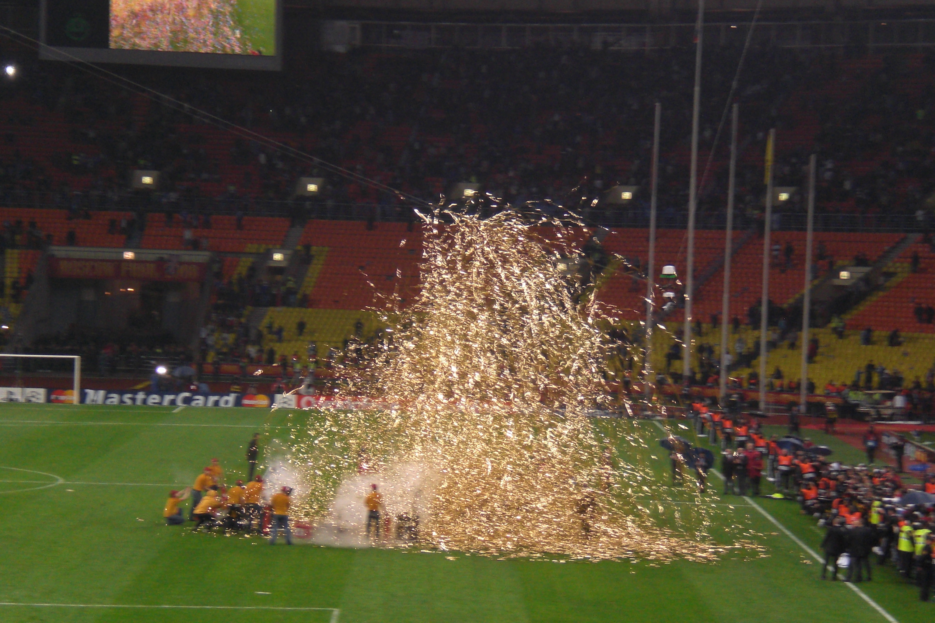 Manchester United lines up for picture after the crowning as CL-winners